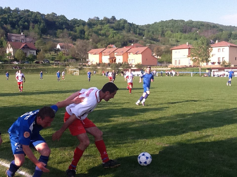 Hosszúhetény SE vs Villány, Baranya county championship (4th division), Hungary